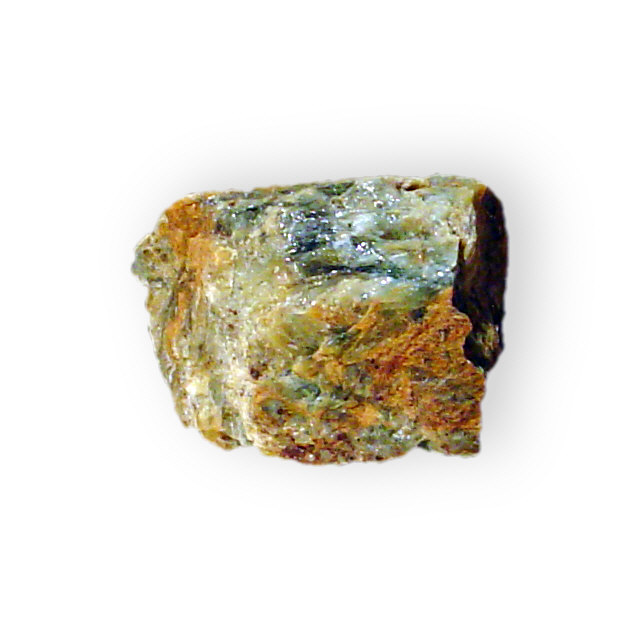 These mineral images are free to use how you wish.